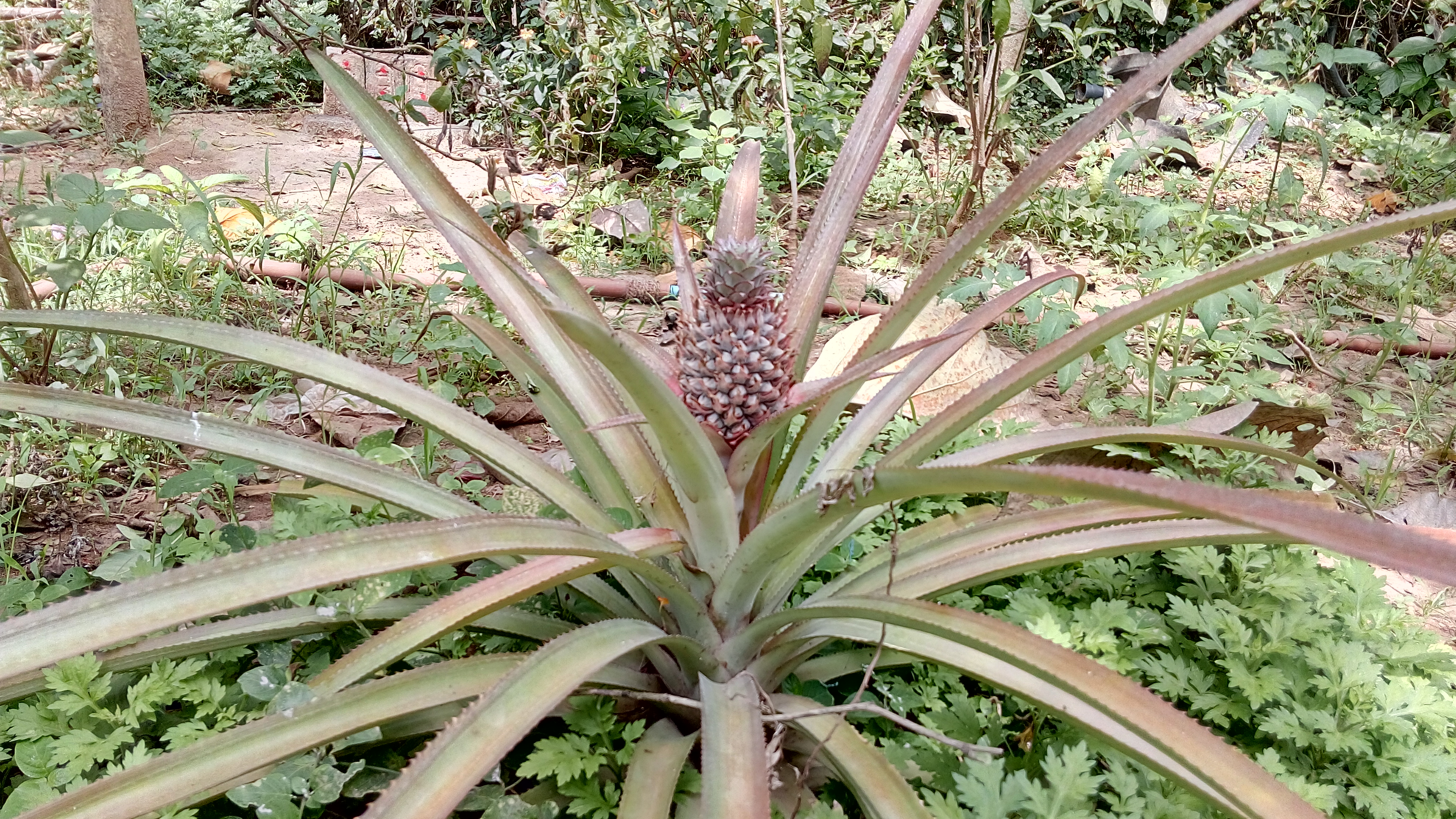 pine apple in growing stage